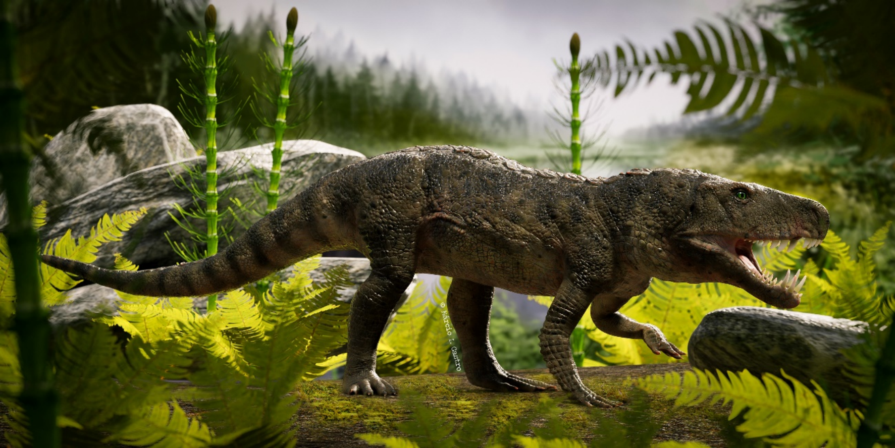 SOM Fig. S4. Life reconstruction of Dynamosuchus collisensis by Márcio L. Castro.